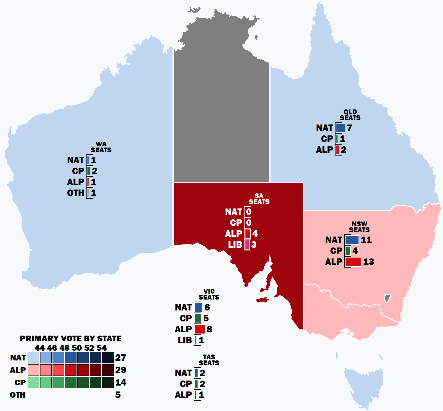 Result of the primary vote by state in the 1922 Australian federal election.